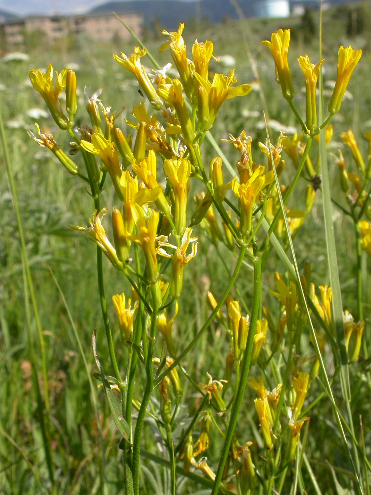 The flowering heads are narrow and glabrous in the region of the involucral bracts.